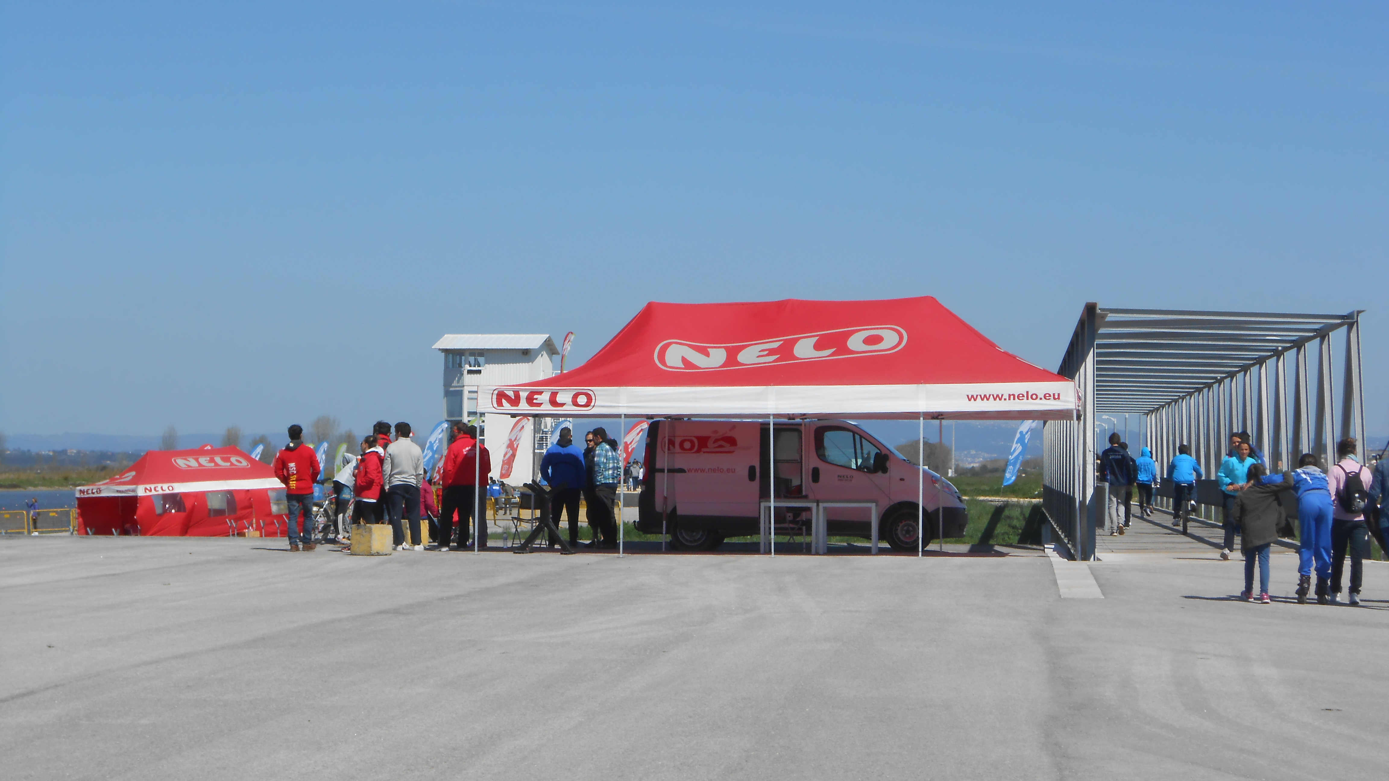 NELO presence at the rowing center in Montemor-o-Velho, Portugal (6 de abril de 2013)